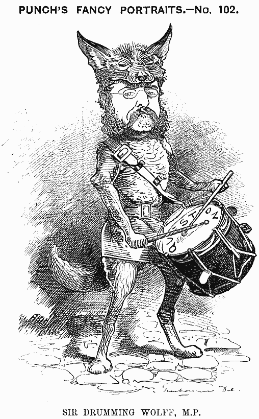 "Sir Drumming Wolff, M.P.". 1882 cartoon of Sir Henry Drummond-Wolff. Scanned from Punch, September 23, 1882, page 142 Artwork by Edward Linley Sambourne